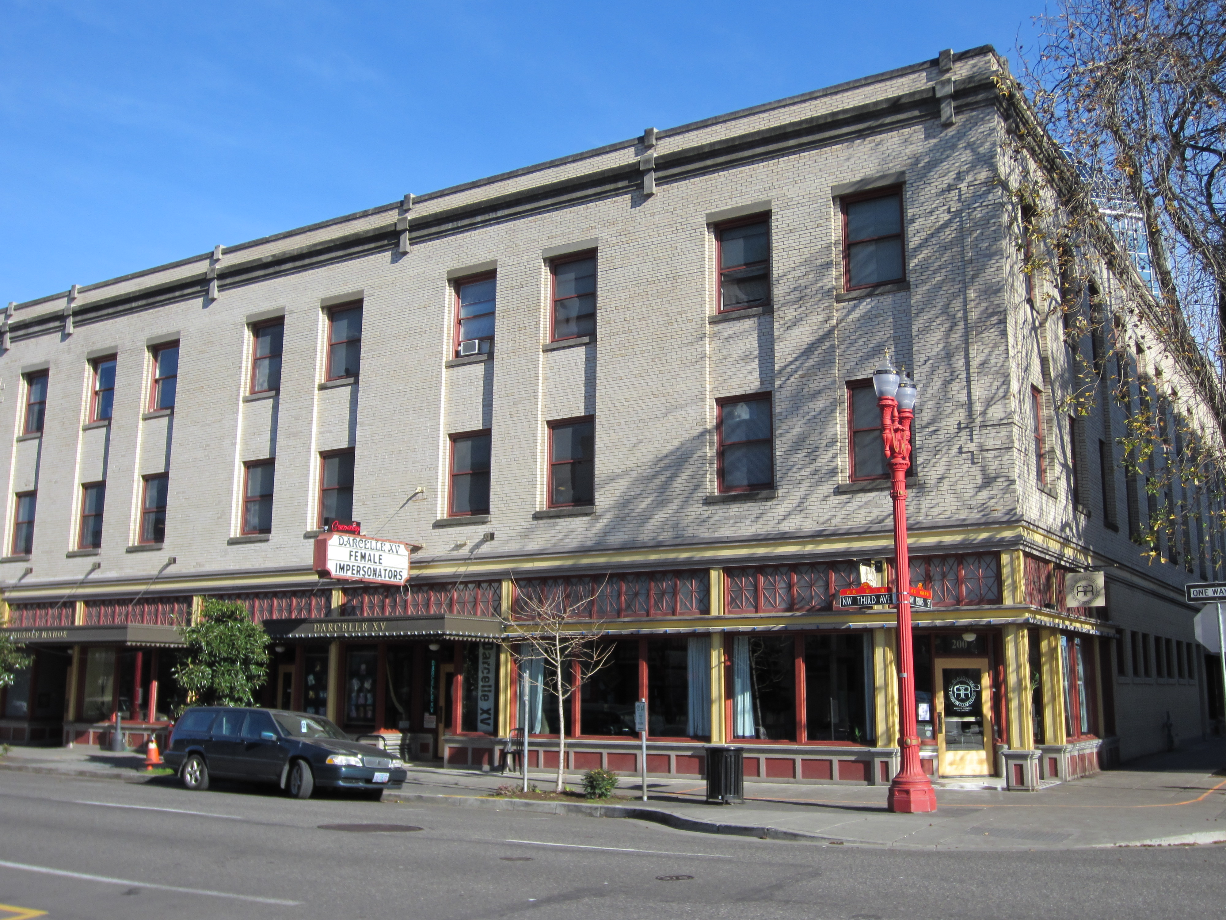 Darcelle XV Showplace and an entrance to CC Slaughters in downtown Portland, Oregon in 2012. The building is a contributing resource in the Portland Skidmore/Old Town Historic District, listed under the historic name Foster Hotel.